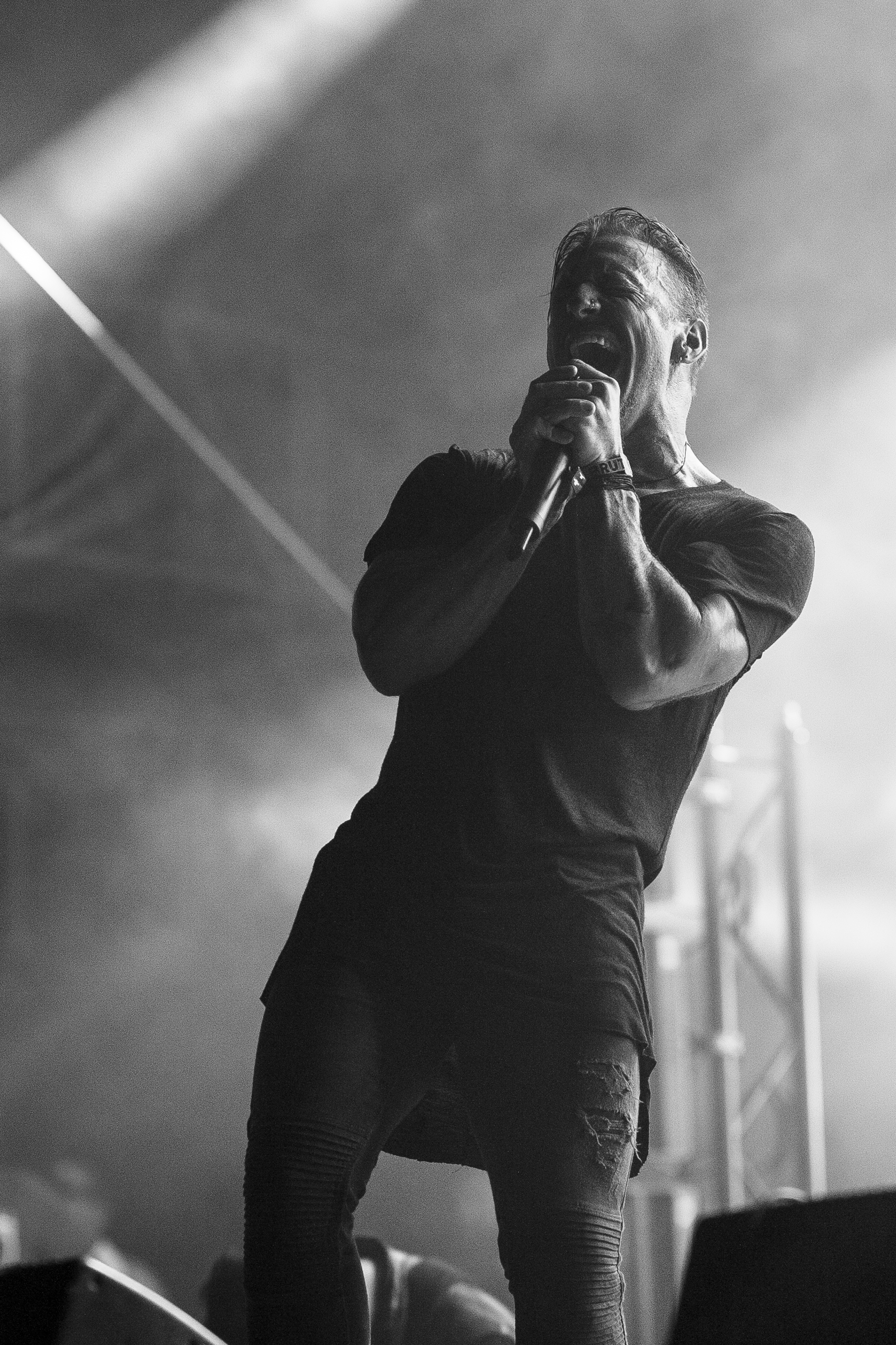 The Dillinger Escape Plan during their final tour in Europe. Brutal Assault Festival, Jaroměř 2017.